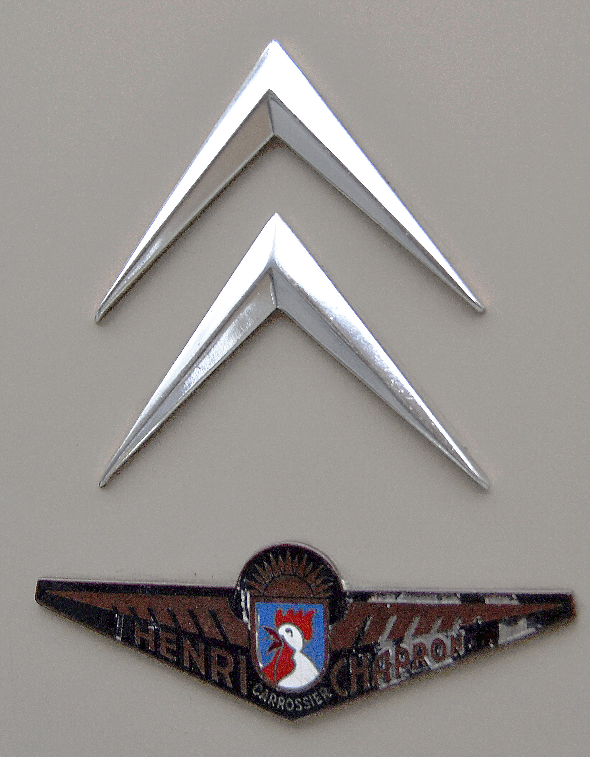 Citroen - Chapron Logo